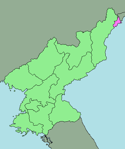 area map of Rasonen:Category:North Korea